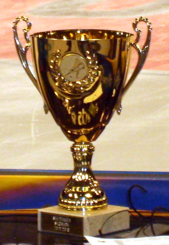 Trophy to the winner of Swedish championship for women.